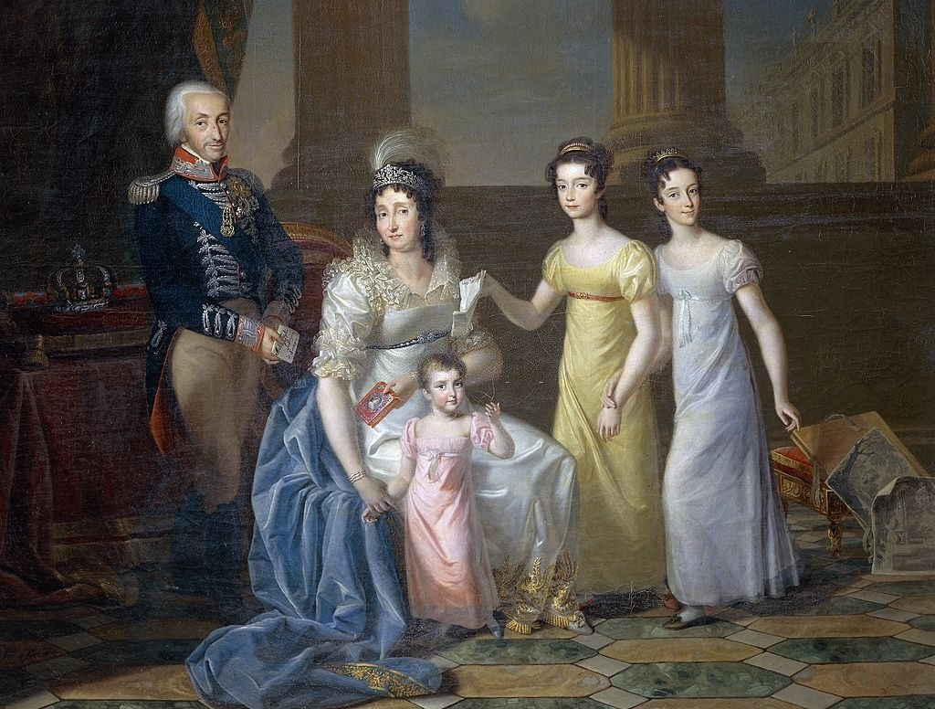 Portrait of Victor Emmanuel I of Sardinia and his family}label QS:Len,"Portrait of Victor Emmanuel I of Sardinia and his family}" label QS:Lnl,"Victor Emanuel I met gezin - public domain wegens ouderdom"